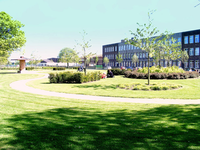 Montrose Academy as seen from Scott's Park, Montrose, Angus, Scotland.